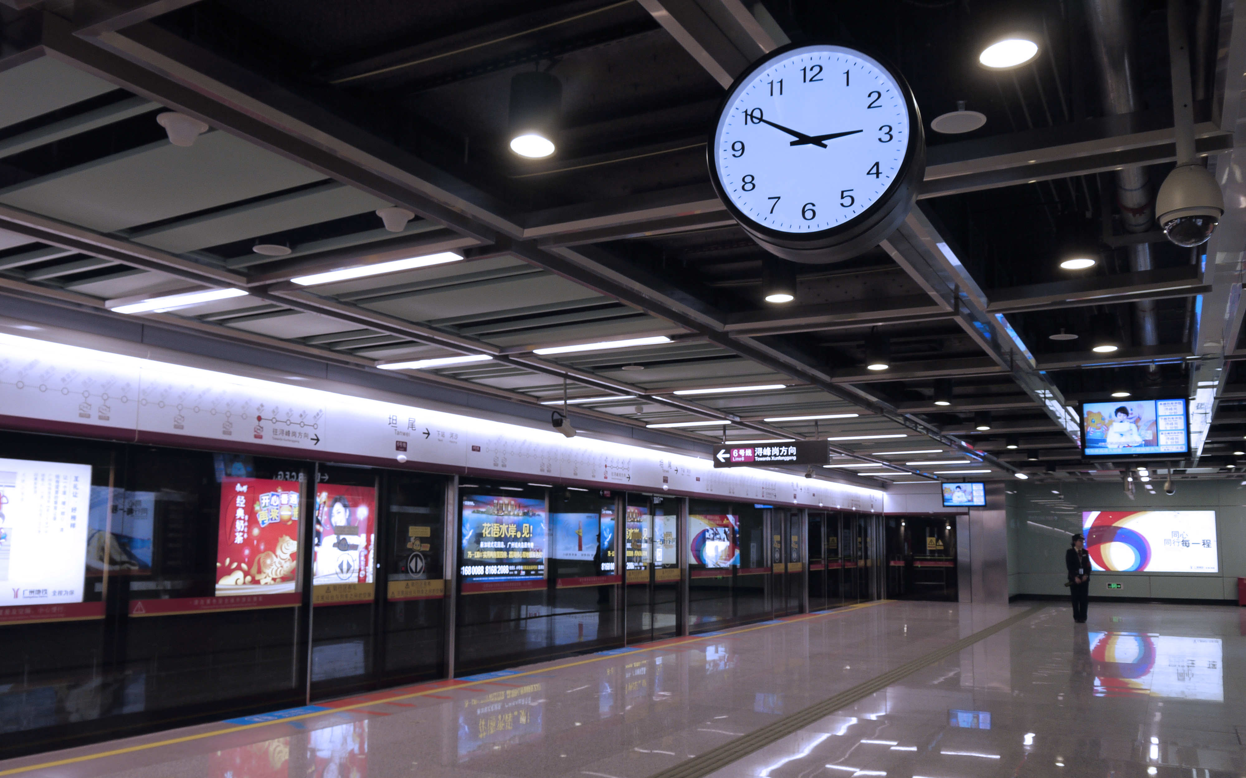 TAN WEI STA.